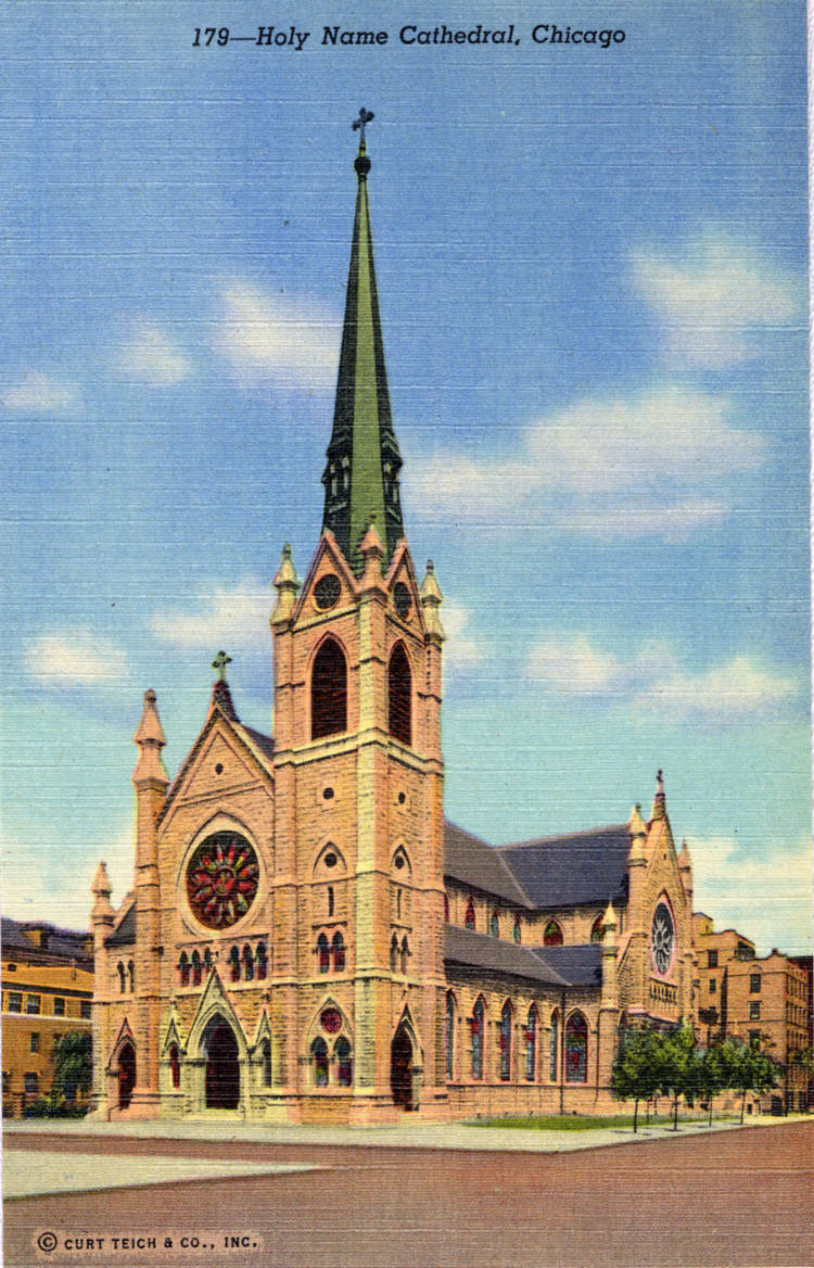 179, Holy Name Cathedral